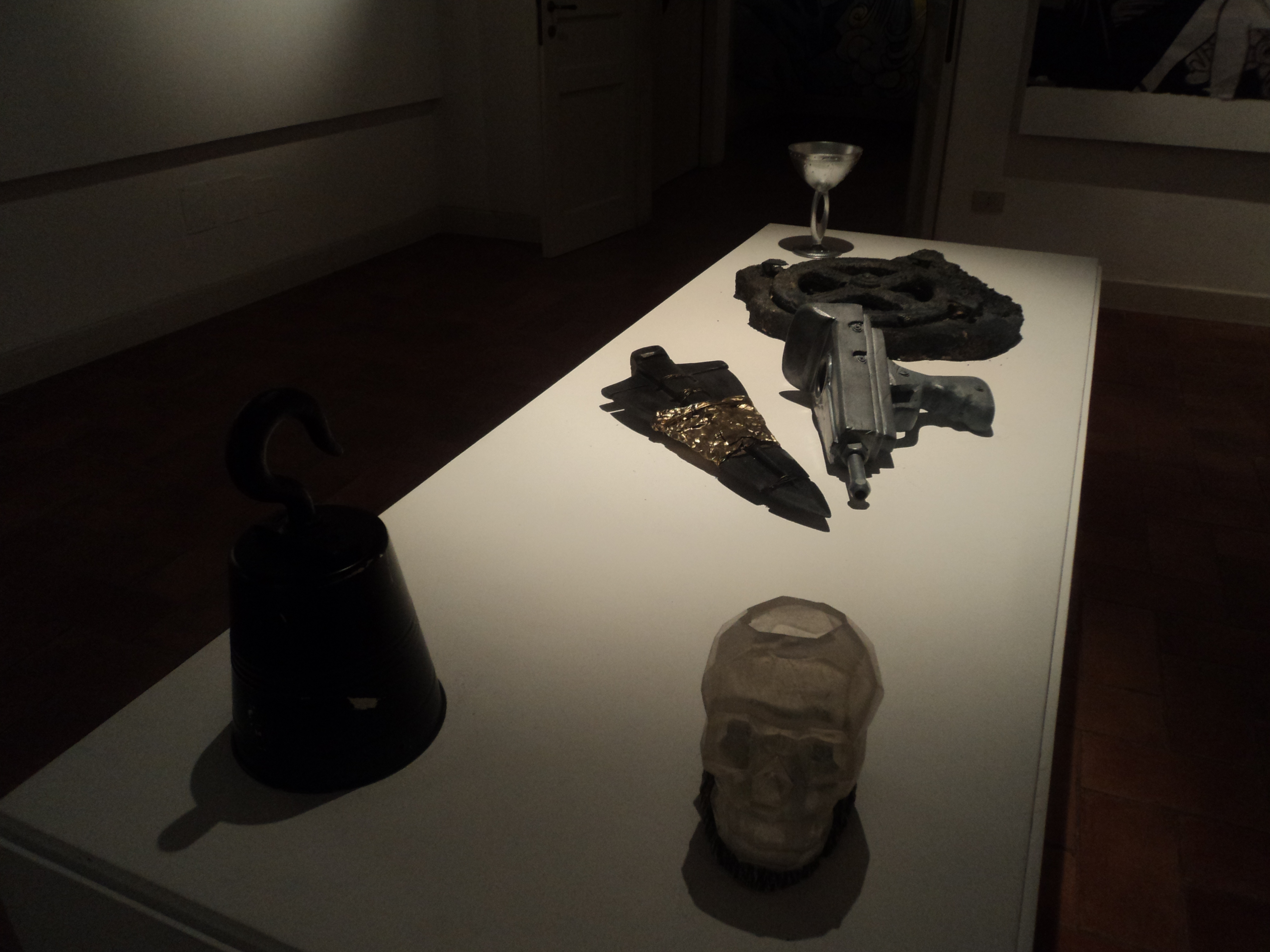 Show L'Audace Bonelli in Rome.